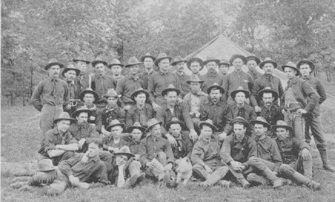 Battery Alpha of Jefferson Barracks.